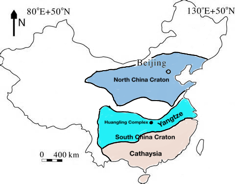 This map shows Huangling Complex's location.